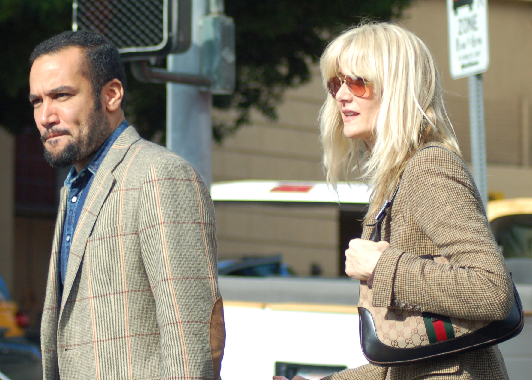 Ben Harper with Laura Dern at a ceremony for Mary Steenburgen to receive a star on the Hollywood Walk of Fame.